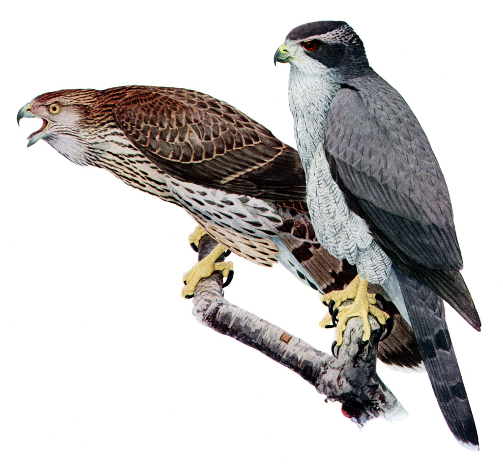 Northern Goshawk, Accipiter gentilis, juvenile (left) and adult (right), offset reproduction of watercolor